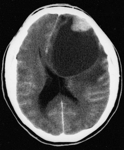 PLEOMORPHIC XANTHOASTROCYTOMA As in this computerized tomographic scan, the classic radiographic appearance is one of a superficially situated tumor, here a mural nodule, associated with an underlying cyst.